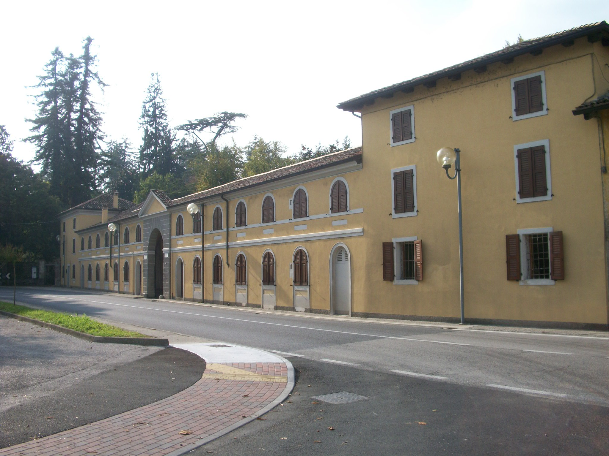 ESTRENO